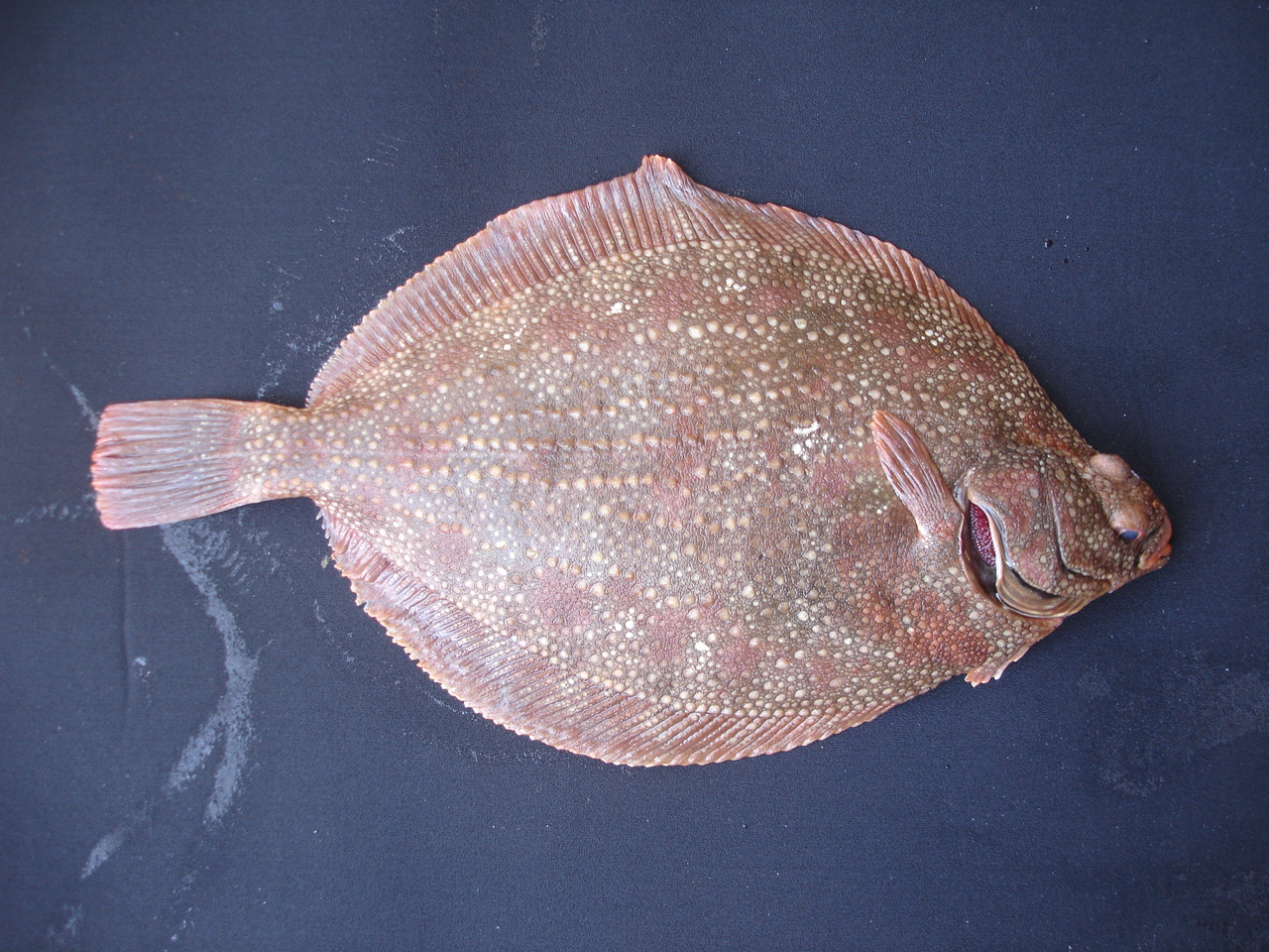 Korea (South), Mukho , by Jung-Goo MYOUNG